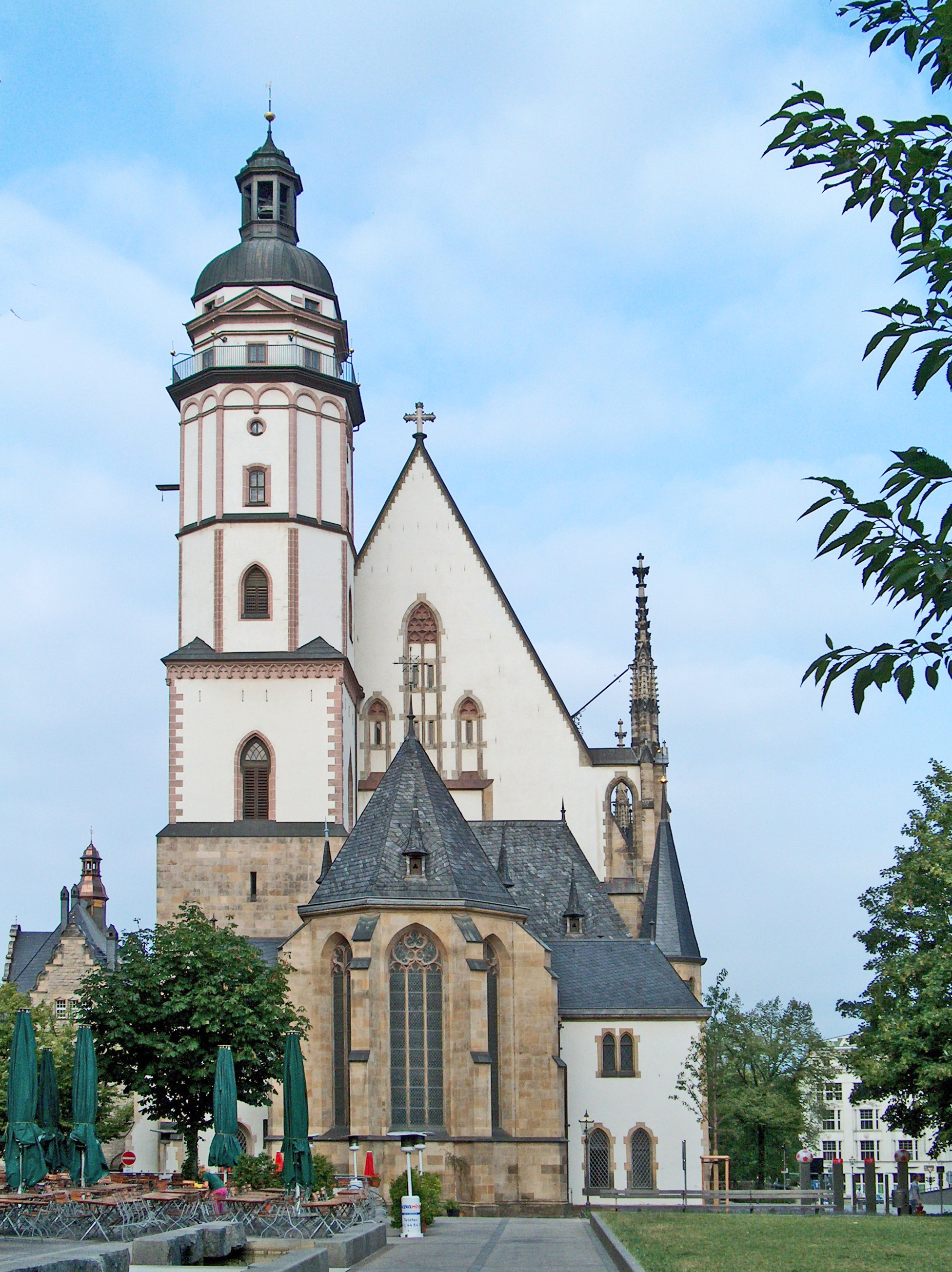 St. Thomas Church, Leipzig